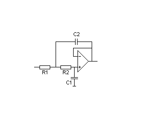 Bessel realisation